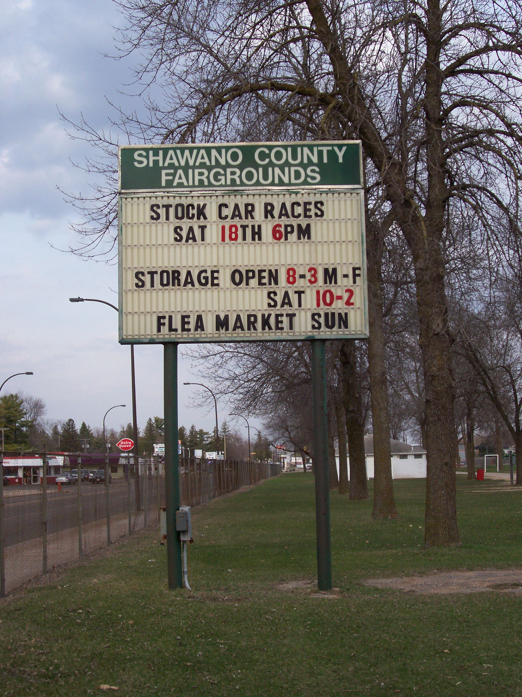 The sign for the Shawano County, Wisconsin fairgrounds in Shawano, Wisconsin along Wisconsin Highway 22 / Wisconsin Highway 47 / Wisconsin Highway 55.